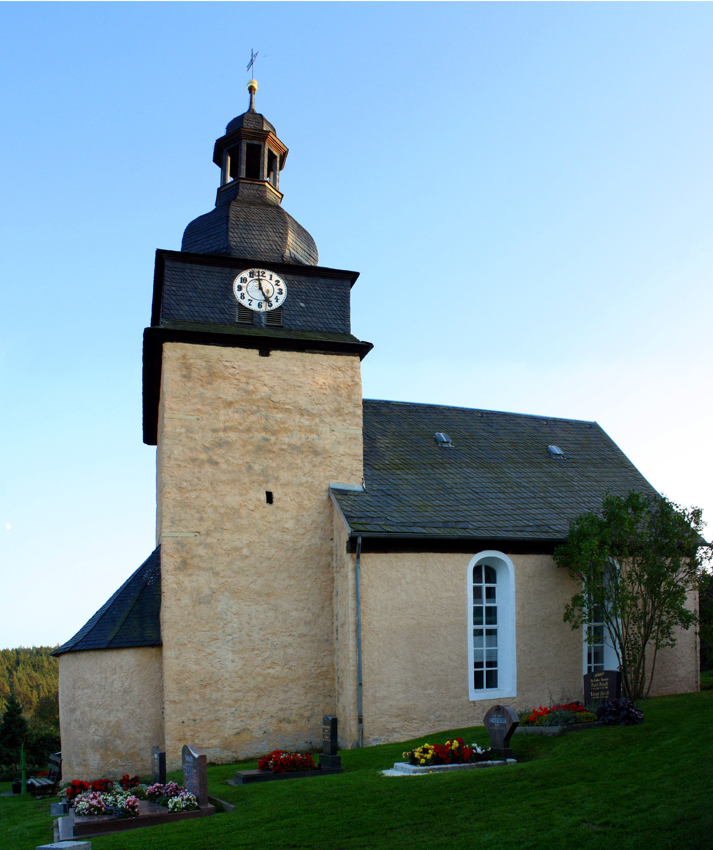 Church in Harth-Pöllnitz - Forstwolfersdorf near Gera/Thuringia